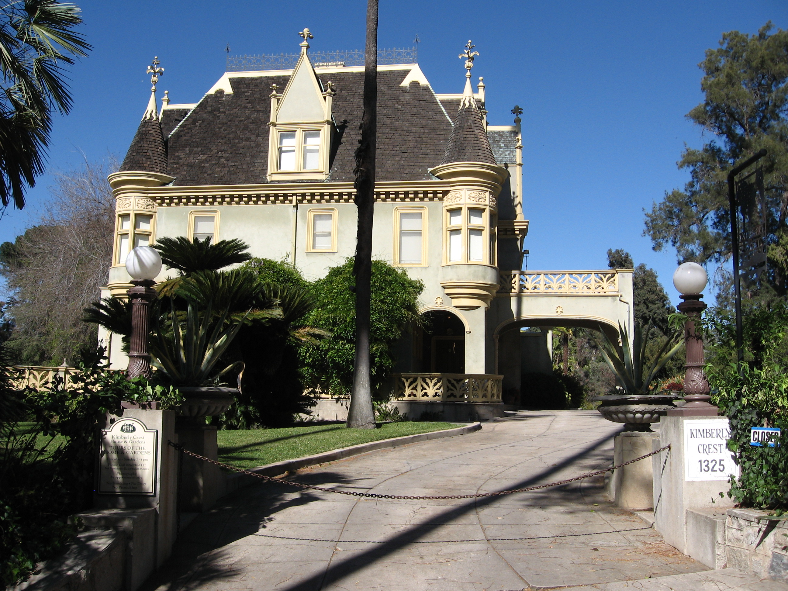 Driveway to front door of Kimberly Crest